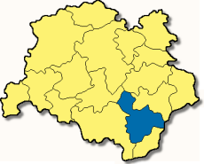 Locator maps of municipalities in Bavaria - District Dachau